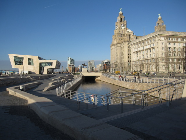 The Pier Head 2010 The remodelled Pier Head looks stunning in the bright winter sun. In the centre is the new canal linking the Leeds-Liverpool canal to the Salthouse Dock, on the left is the new Mersey Ferries building, and on the right is the Cunard building with the iconic Liver Building behind.